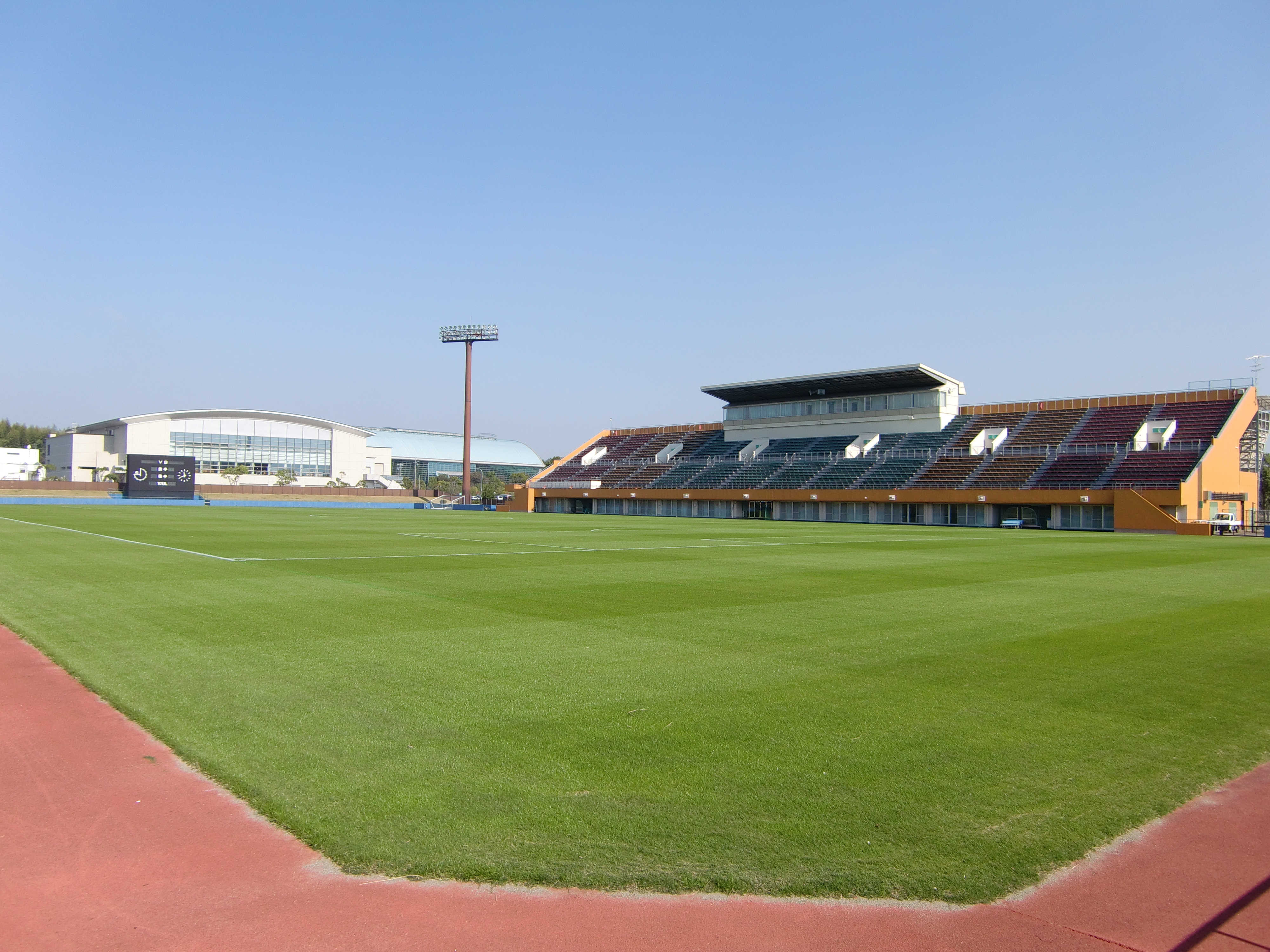 Suzuka Garden Sports Land